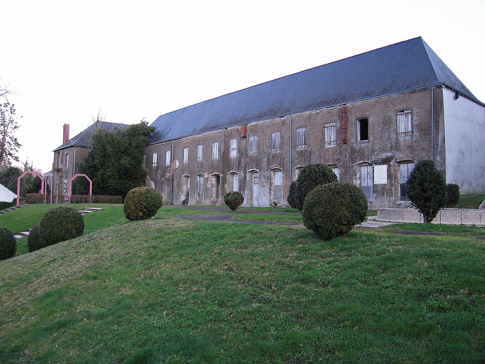 Old convent of the Conventual Franciscans in Savenay, Loire-Atlantique, France